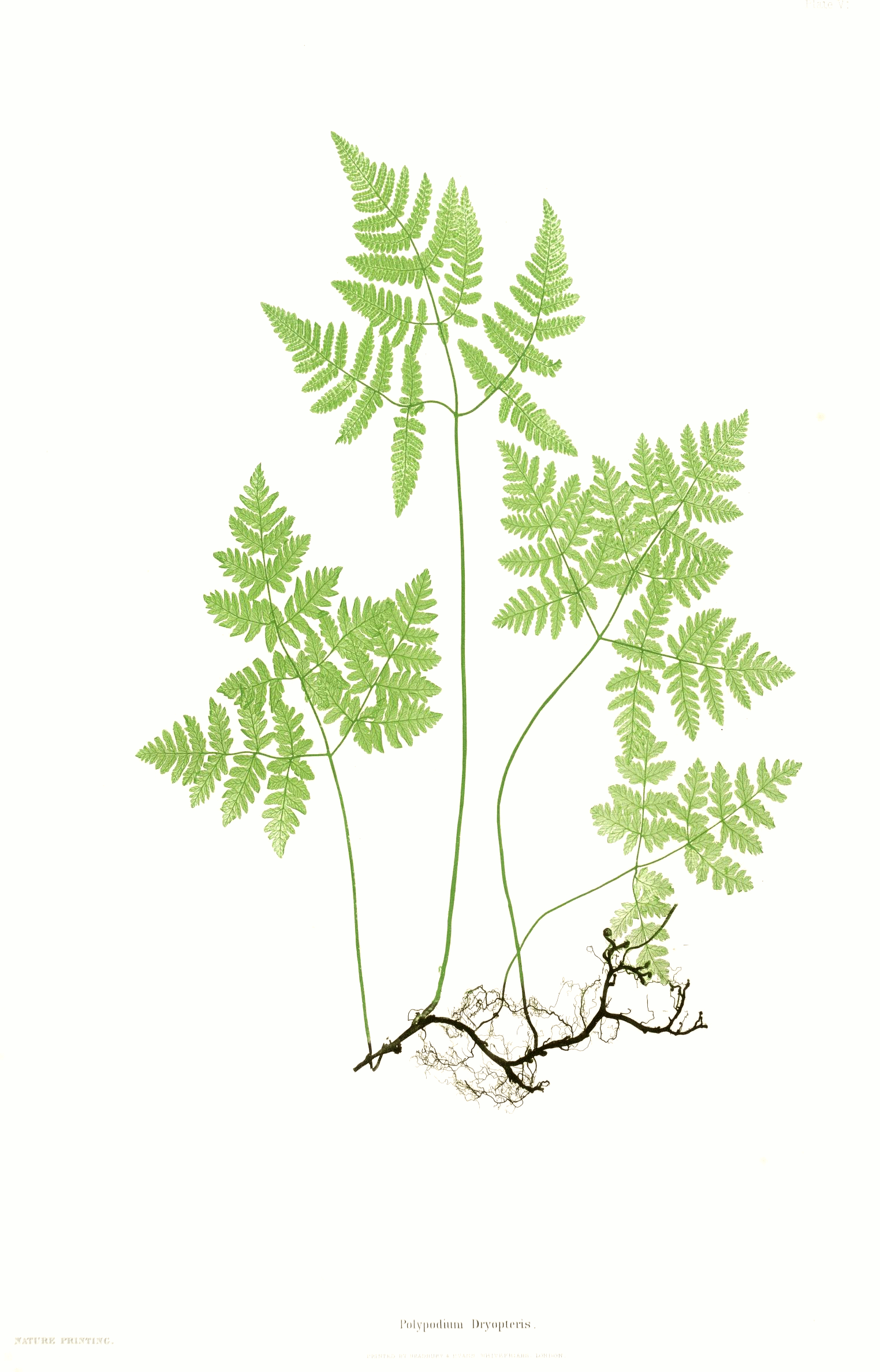 Plate from book